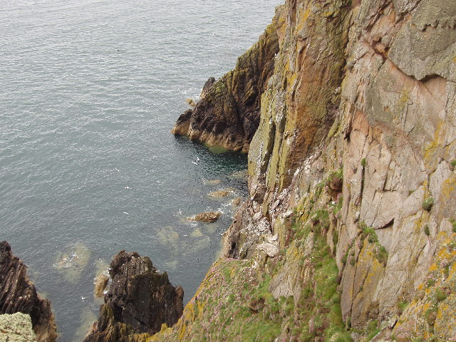 Cliffs by Gallie Craig, Mull of Galloway